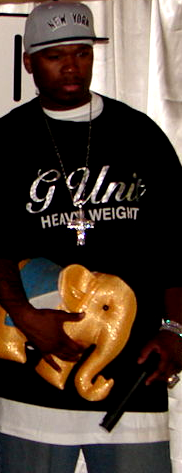 50 Cent (cropped and enhanced)